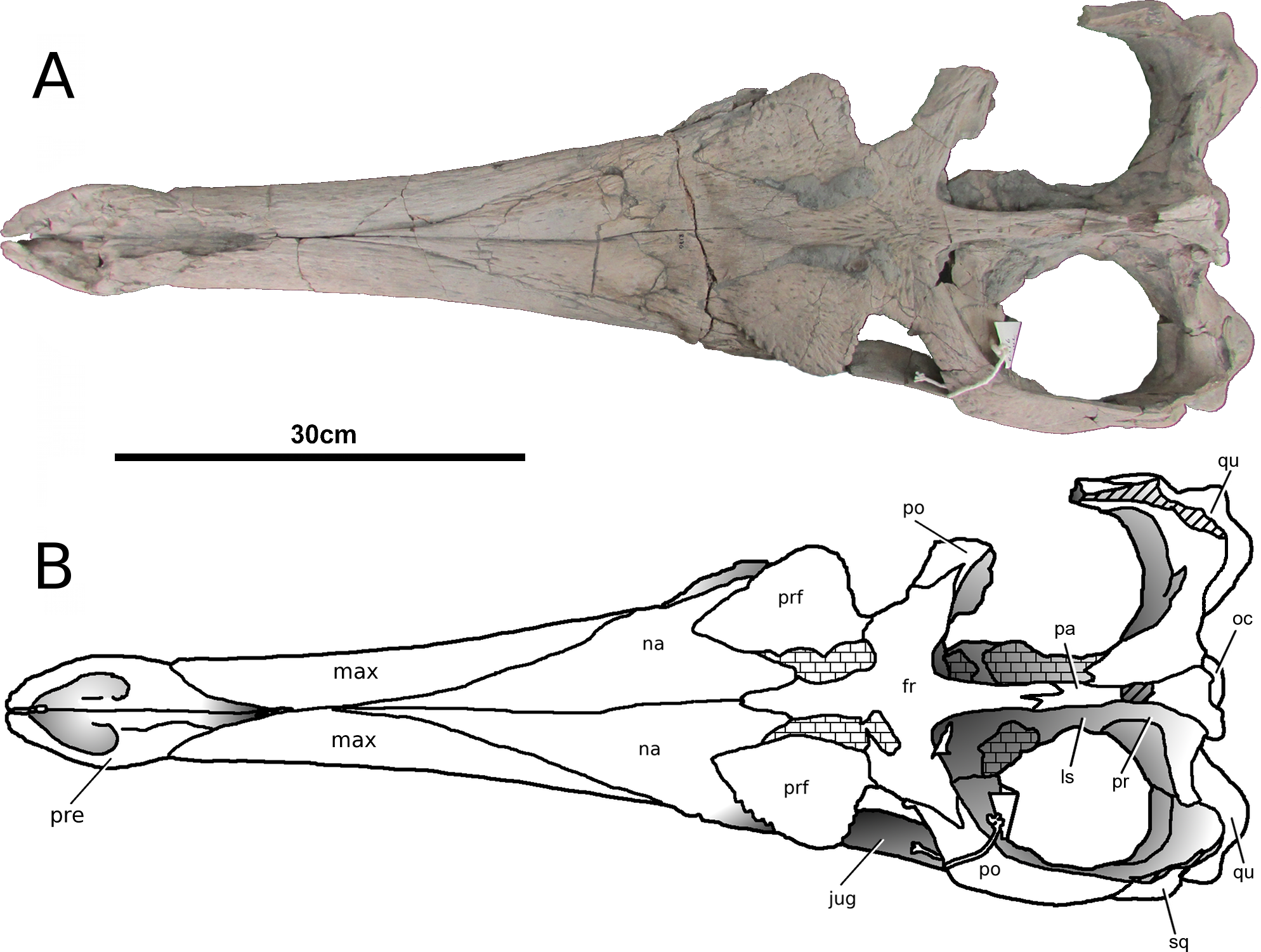 Tyrannoneustes lythrodectikos, PETMG:R176. Skull. (A) Dorsal view photograph; (B) dorsal view line drawing. Refer to the main text for the abbreviations list.